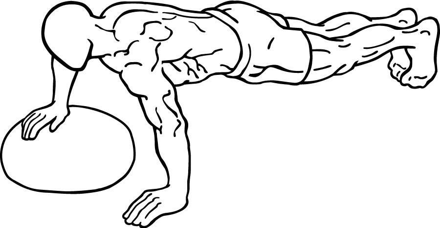 an exercise of chest